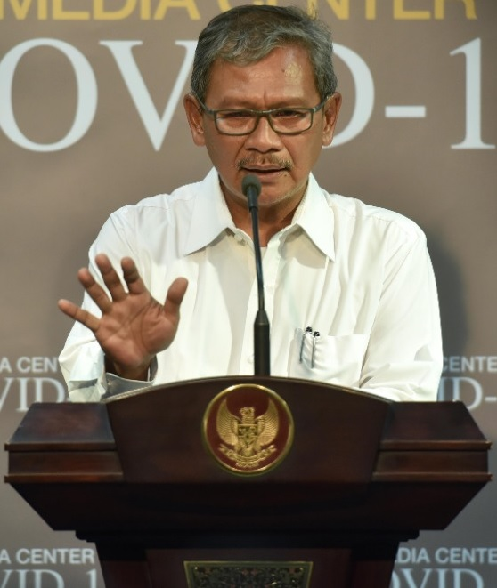 Achmad Yurianto, spokesperson of the covid-19 task force of the Indonesian Government